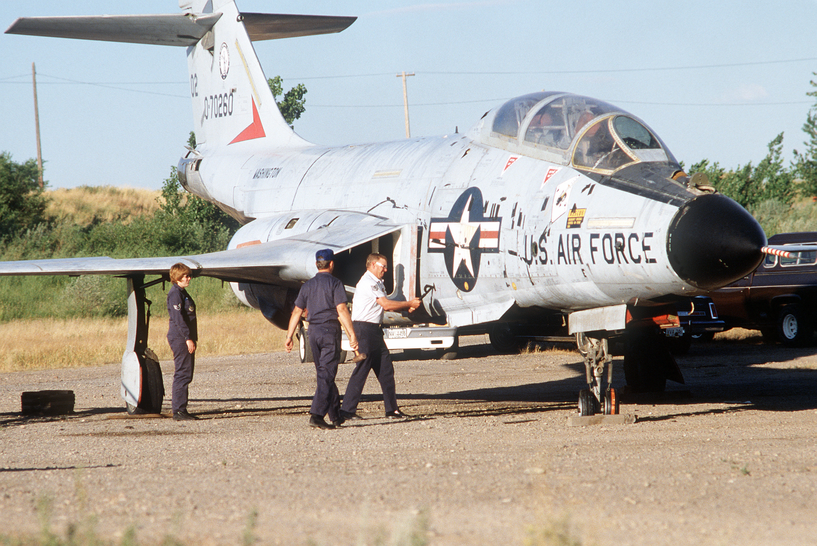 A retired U.S. Air Force McDonnell F-101B-80-MC Voodoo (s/n 57-0260) is prepared to be damaged in certain areas, so that personnel from the 2952nd Combat Logistics Support Squadron can repair it as part of a training exercise at Hill Air Force Base, Utah (USA), on 1 July 1981. The Voodoo still carries the markings of its last operator, the 116th Fighter Squadron, 141st Fighter Group, Washington Air National Guard, which flew the type from 1965 to 1976.